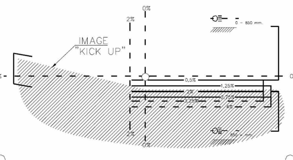 Detail of headlight tester aiming screen used to determine orientation of vehicle headlamp bulbs.